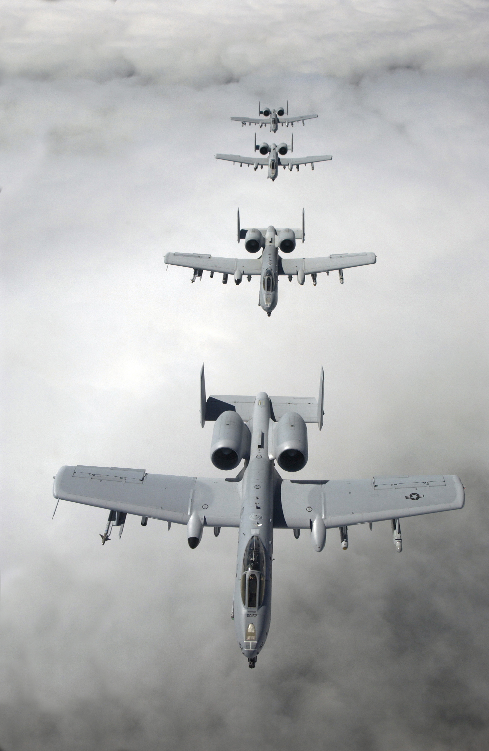 Four A-10 Thunderbolt II aircraft from the 111th Fighter Wing, Willow Grove Air Reserve Station, Pa., fly in formation after taking on fuel from a KC-10A Extender, on May 25, 2005. The Thunderbolt is designed for close air support of ground forces and can be used against all ground targets including tanks and other armored vehicles.